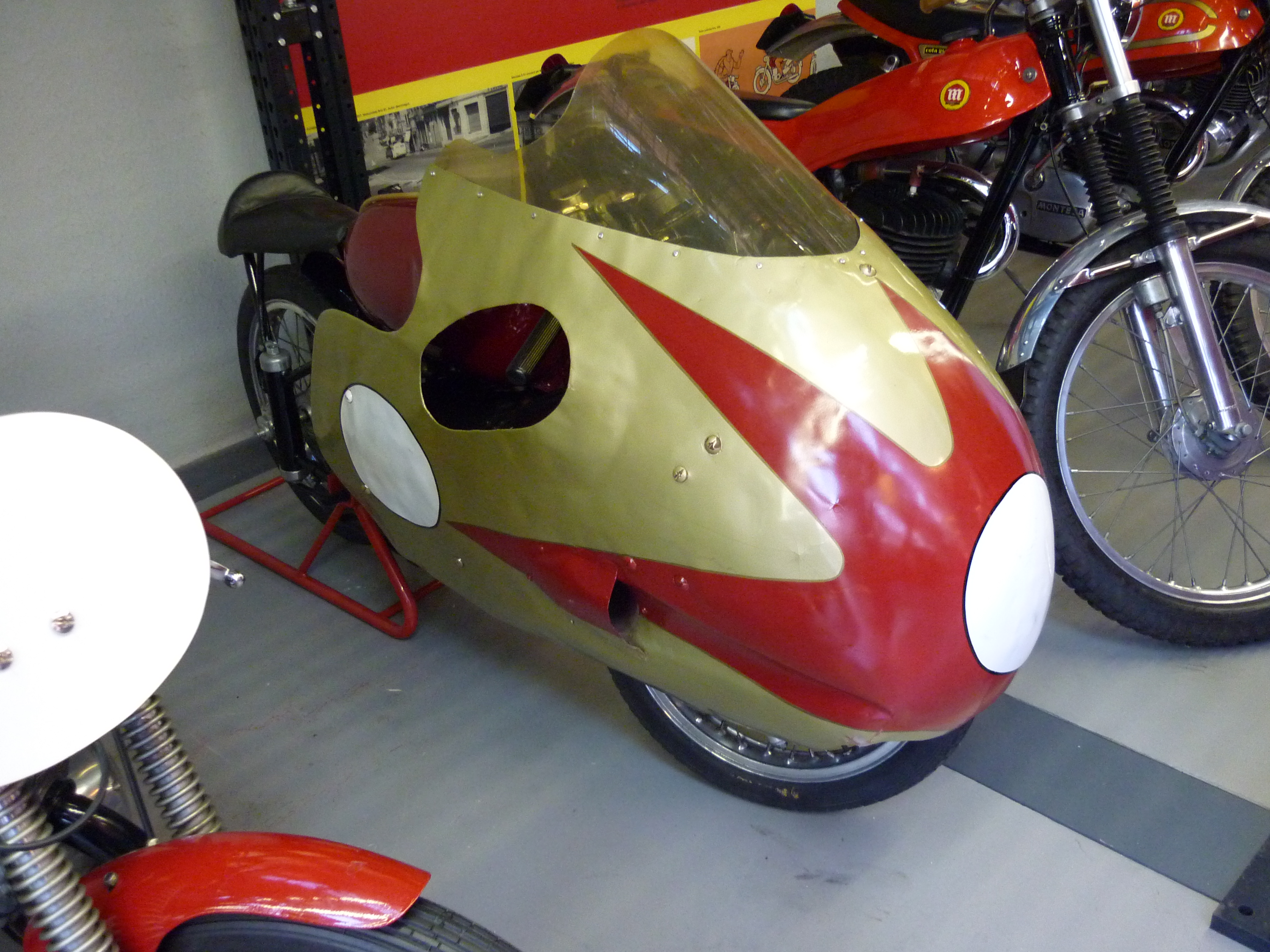 Montesa Sprint 125cc. On three bikes like this, Marcel Cama, Paco González and Enric Sirera finished second, third and fourth (after Carlo Ubbiali) at the 1956 Manx TT.